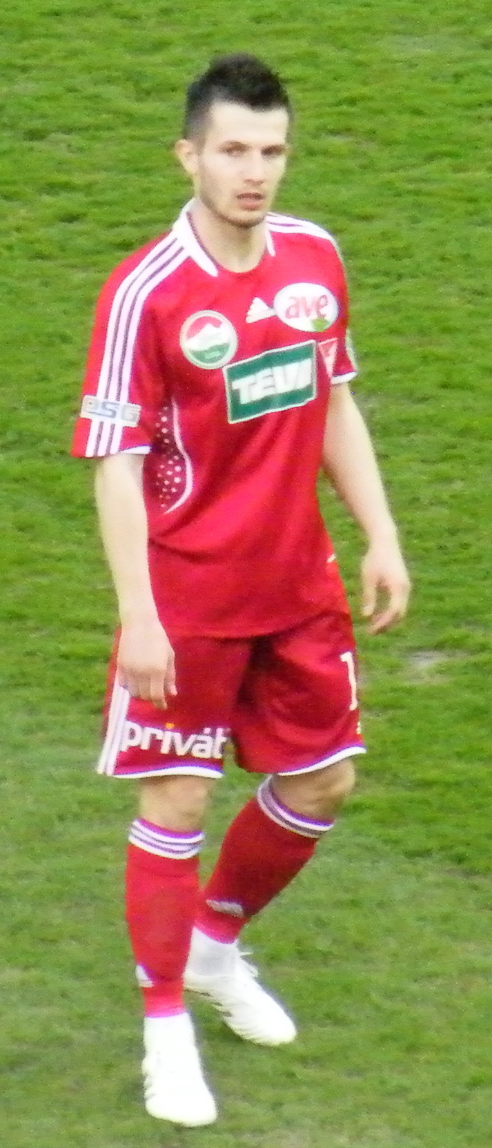 Gergely Rudolf Hungarian football player